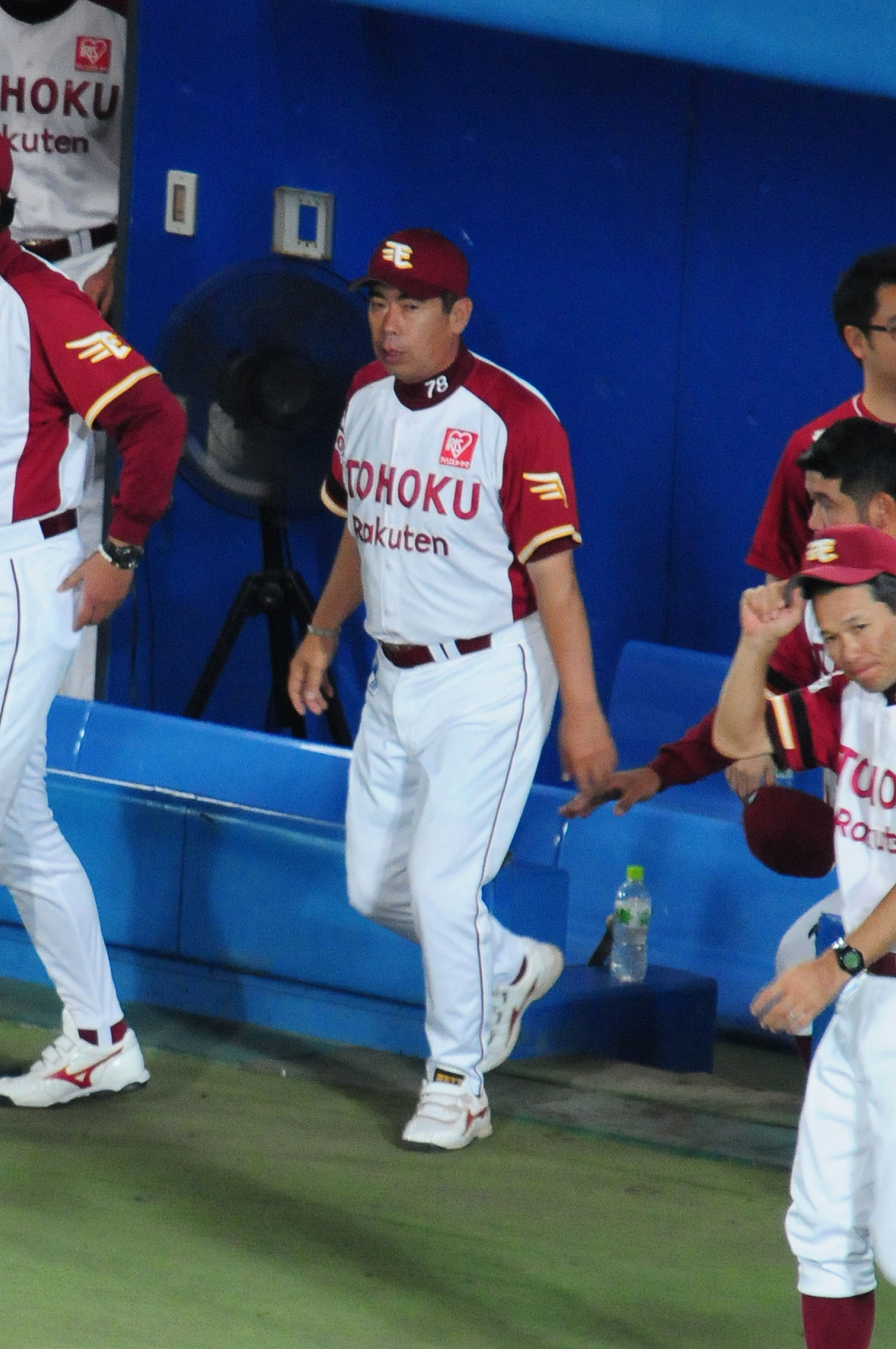 Atsuhiro Motonishi, coach of the Tohoku Rakuten Golden Eagles, at Akita Prefectural Baseball Stadium.